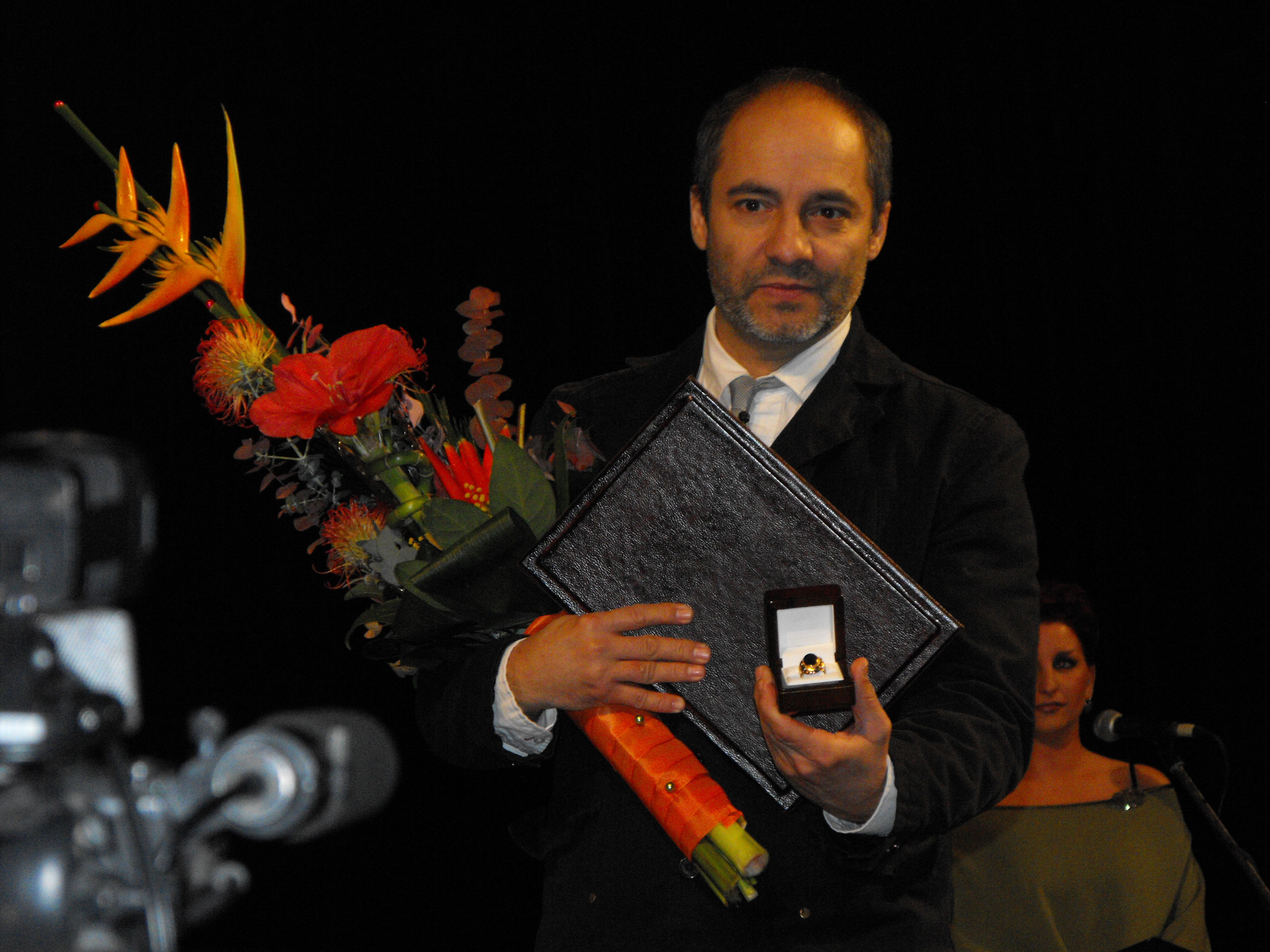 Péter Rudolf Hungarian actor recieves the Páger Award, in the local theatre named Hagymaház (~Onion House), Makó, Hungary.